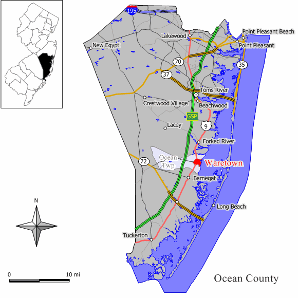 Source: Jim Irwin Original work by Jim Irwin, December 2005.